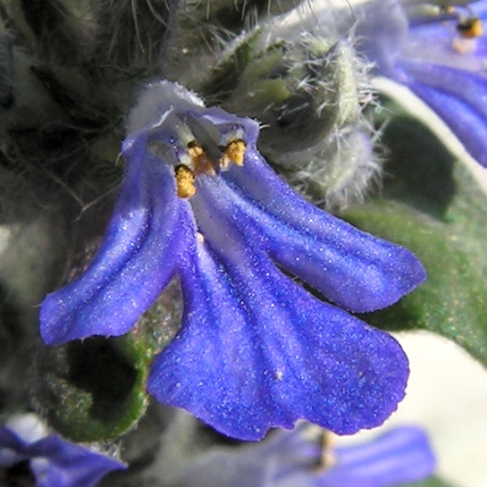 The flower of Ajuga reptans. Moscow region, Russia.